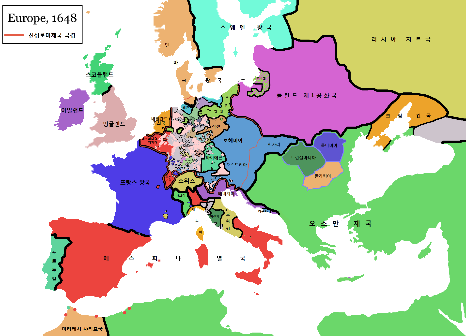 Ænglisc: translation of File:Europe map 1648.PNG